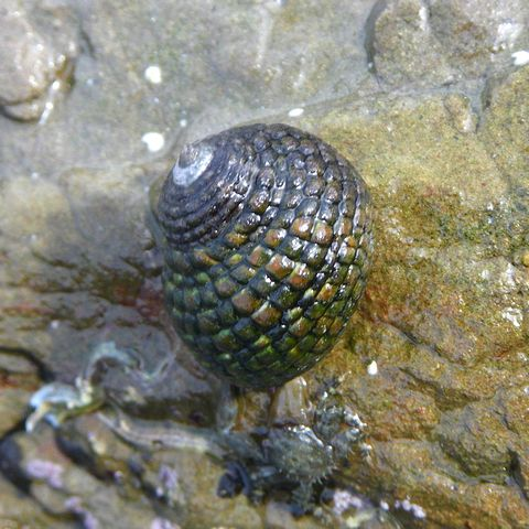 Monodonta confusa Tapparone-Canefri, 1874